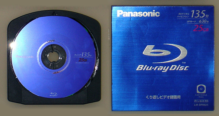 Blu-ray Disc LM-BRM25 (Panasonic). Single layer discs BD-RE with 25GB capacity and cartridges. Taken on the consumer electronics fair IFA2005 in Berlin.